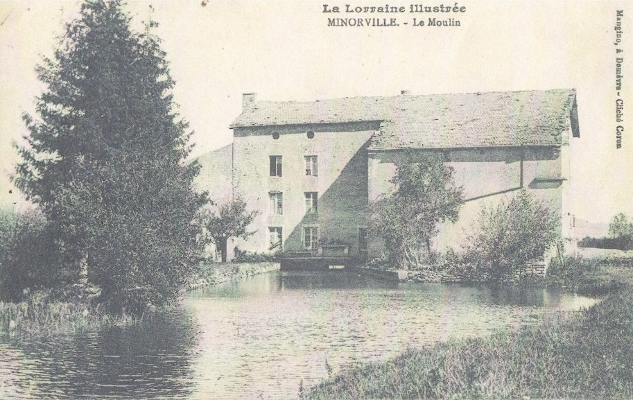 Old post card of Minorville (Meurthe-et-Moselle ; France). The mill.